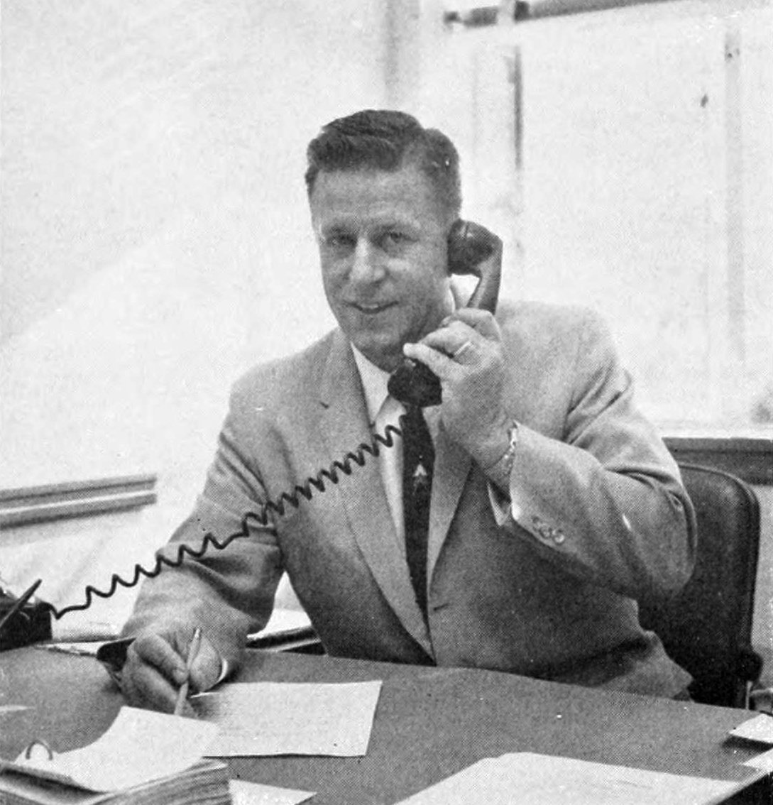 UCLA tennis coach and Assistant Business Manager J. D. Morgan